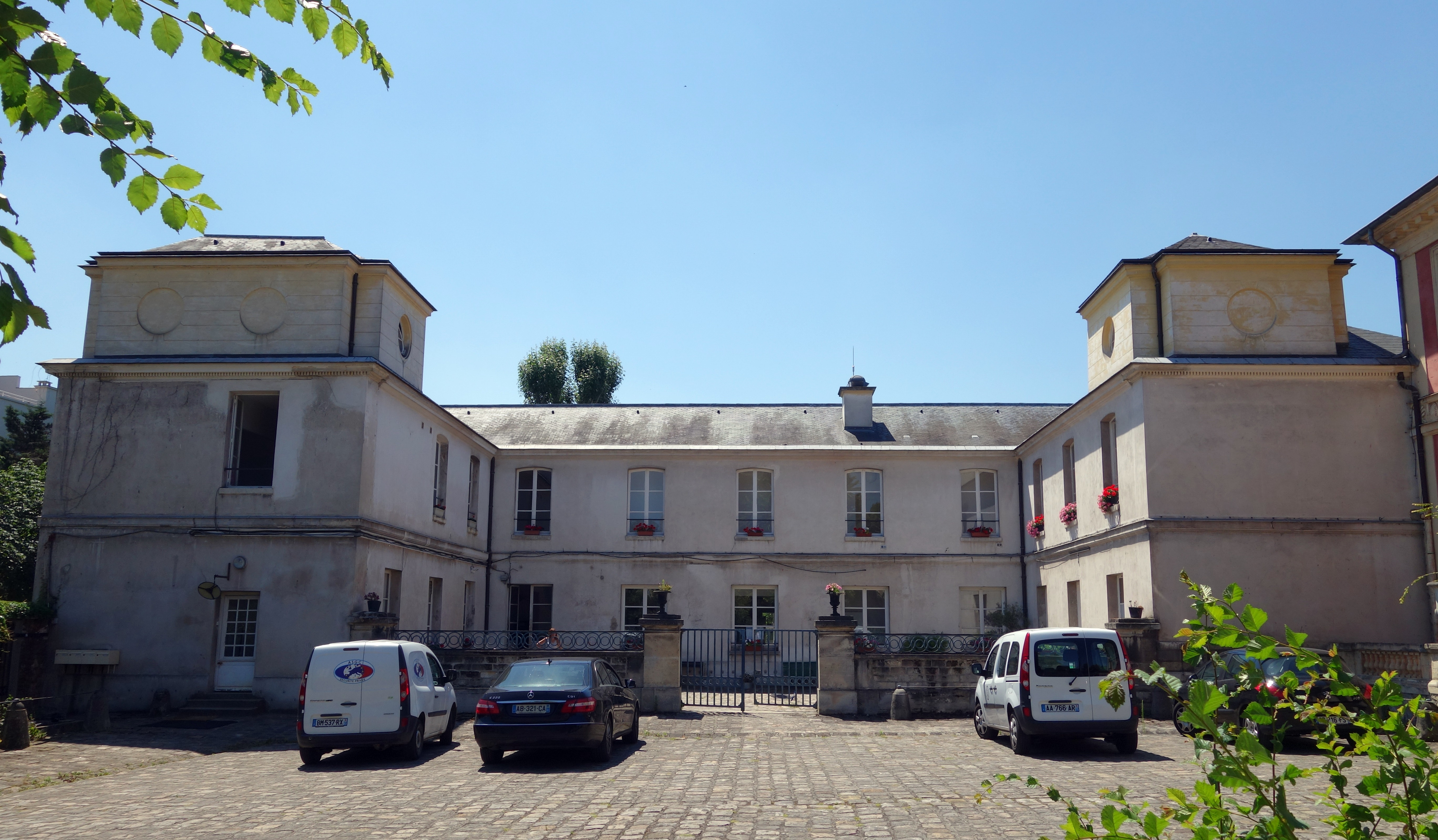 The former "communs" of the Folie Saint-James in Neuilly-sur-Seine, France. Former master’s house of the domaine de la Chambre.